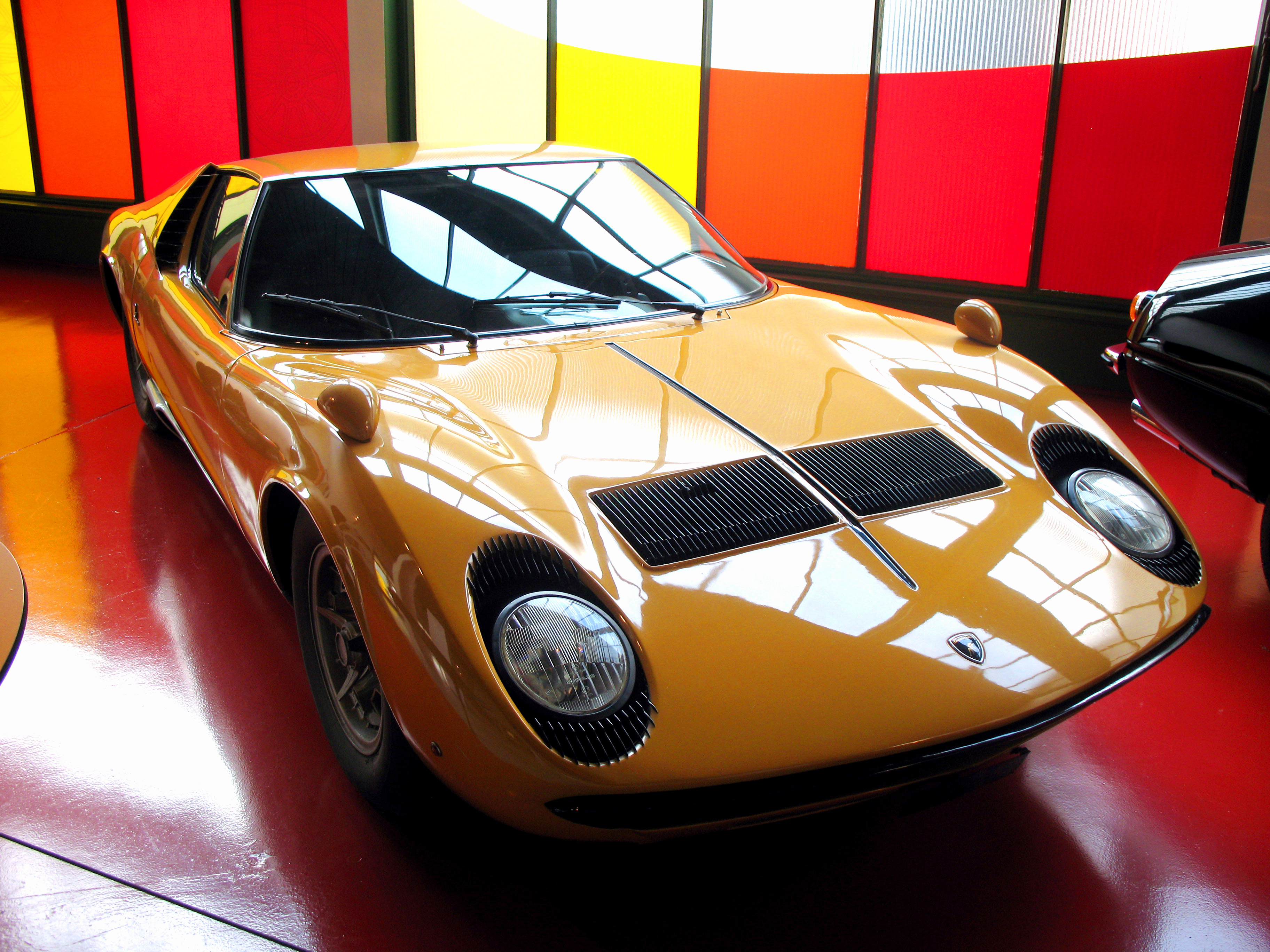 Lamborghini Miura in the Swiss Transport Museum, Luzern, Switzerland